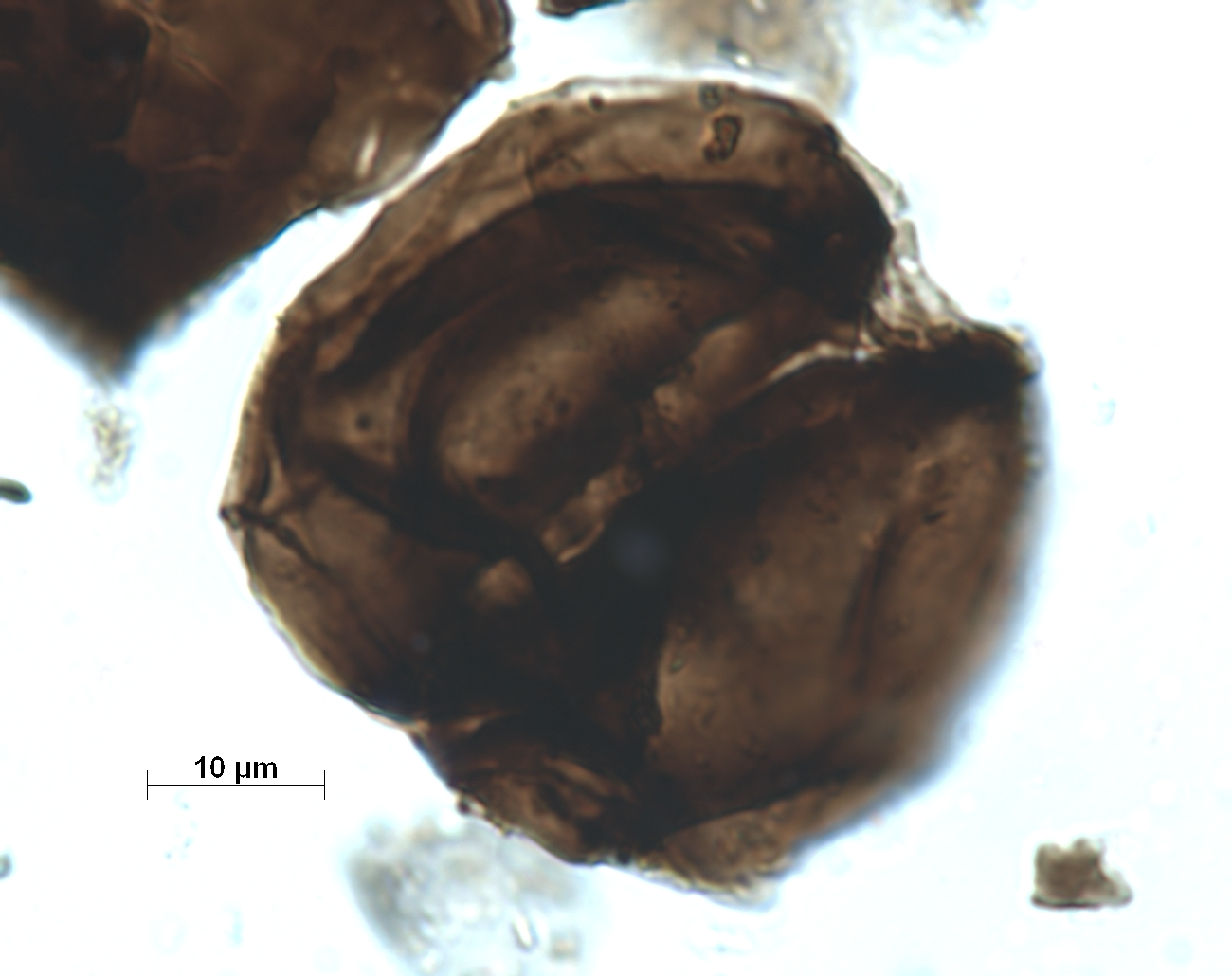 Cryptospore organised in dyad (Segestrespora laevigata)